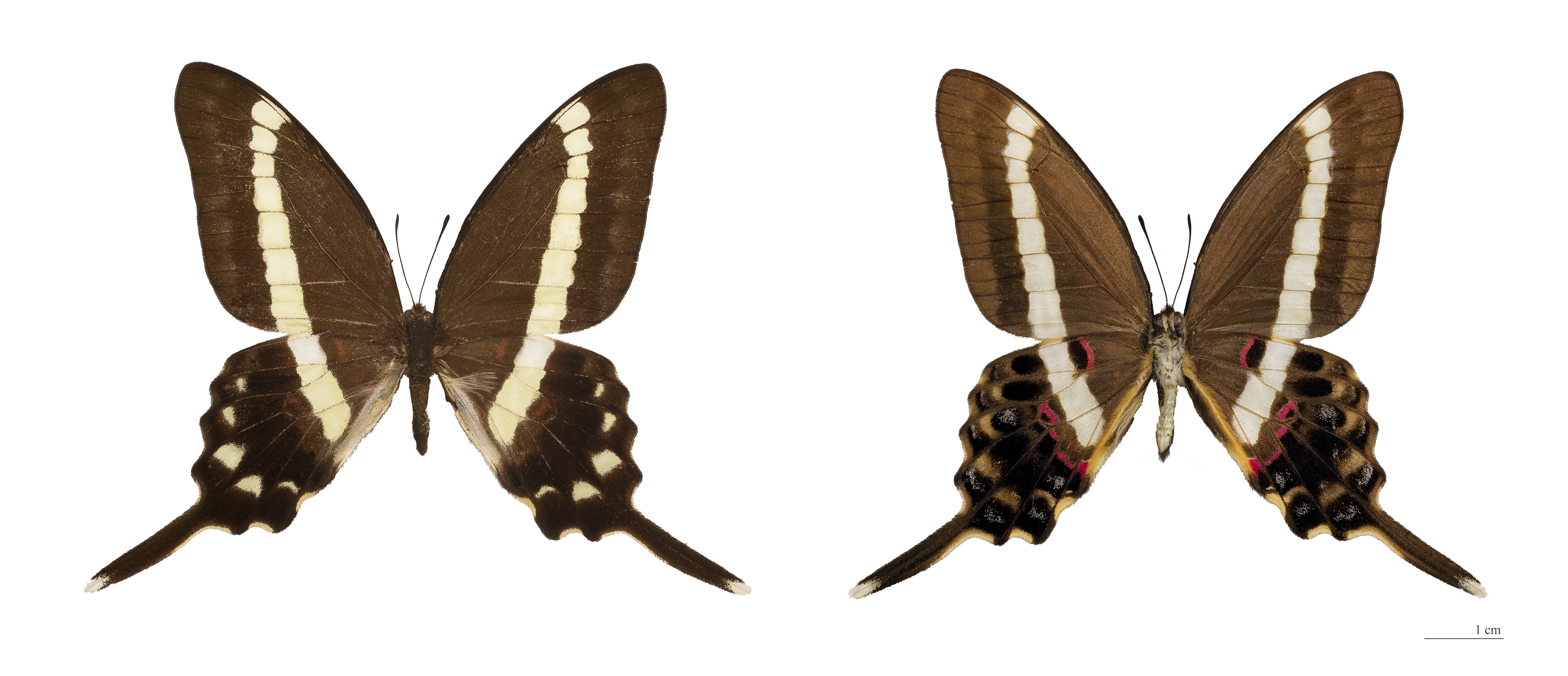 ♂ - Two views of same specimen Locality: Boukoko, Central African Republic.